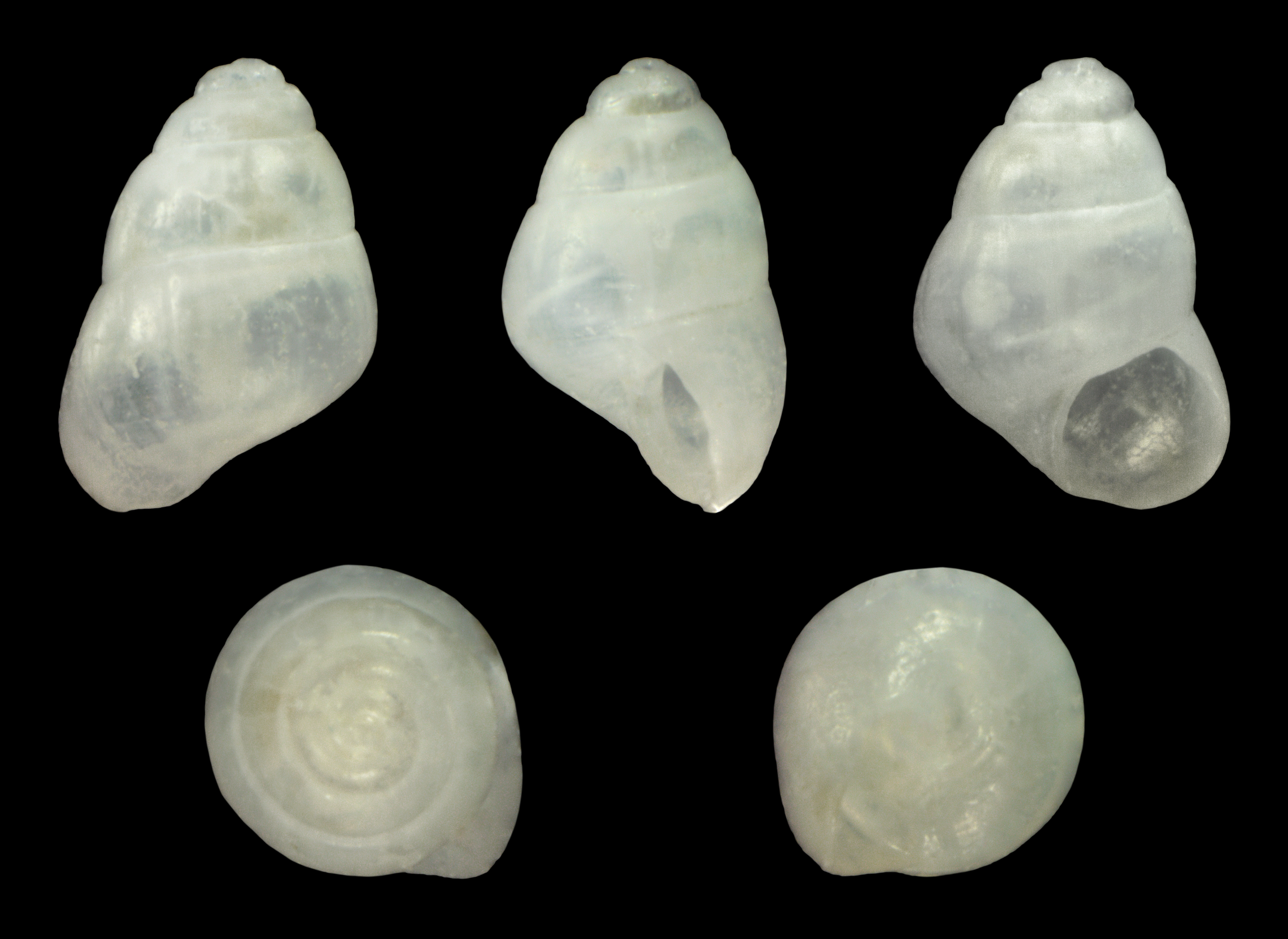 Powellisetia fallax Kay, 1979, Length 0.11 cm; Originating from Sipalay, Negros Occidental, Philippines; Shell of own collection, therefore not geocoded.